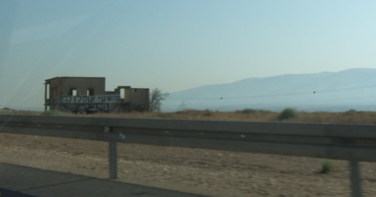 A deserted building in the Jordan valley with a graffiti calling to bring to justice those responsible for the Oslo accords which armed the PLO terror organization in the west bank and consequently brought about in the following years over 1000 murdered Israeli civilians.